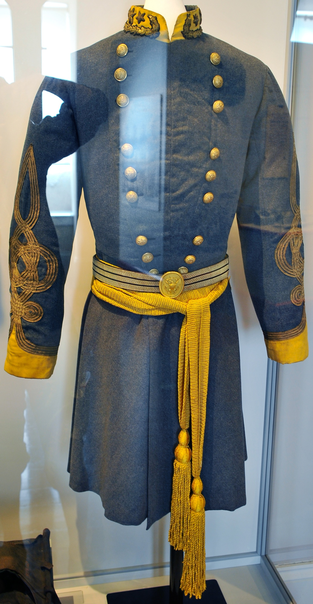 uniform worn by Major General Mansfield Lovell (CSA), Louisiana State Museum, Cabildo, New Orleans, Louisiana